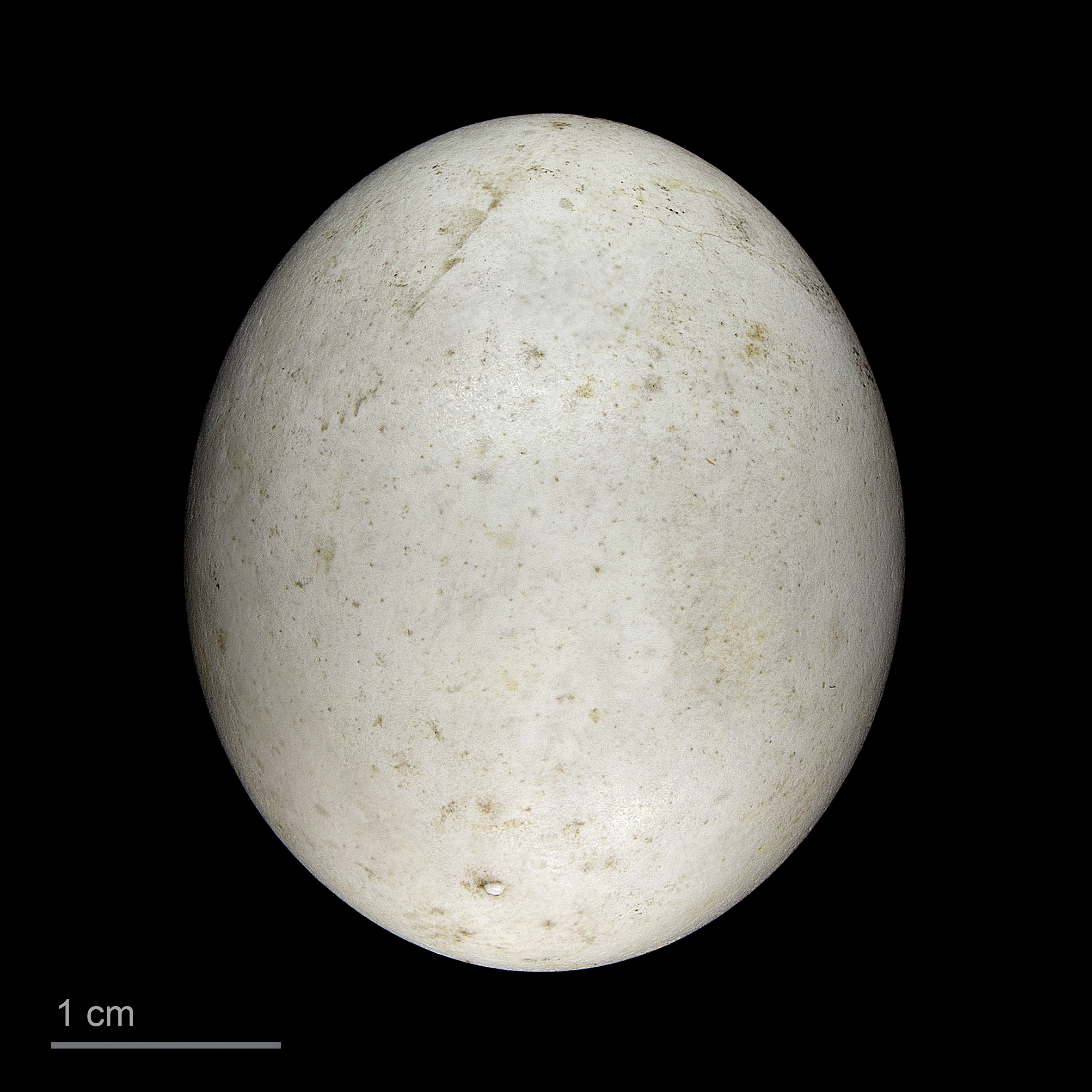 Egg of Eurasian pygmy owl Collection of Jacques Perrin de Brichambaut.